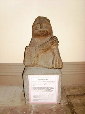 The Tandragee Man